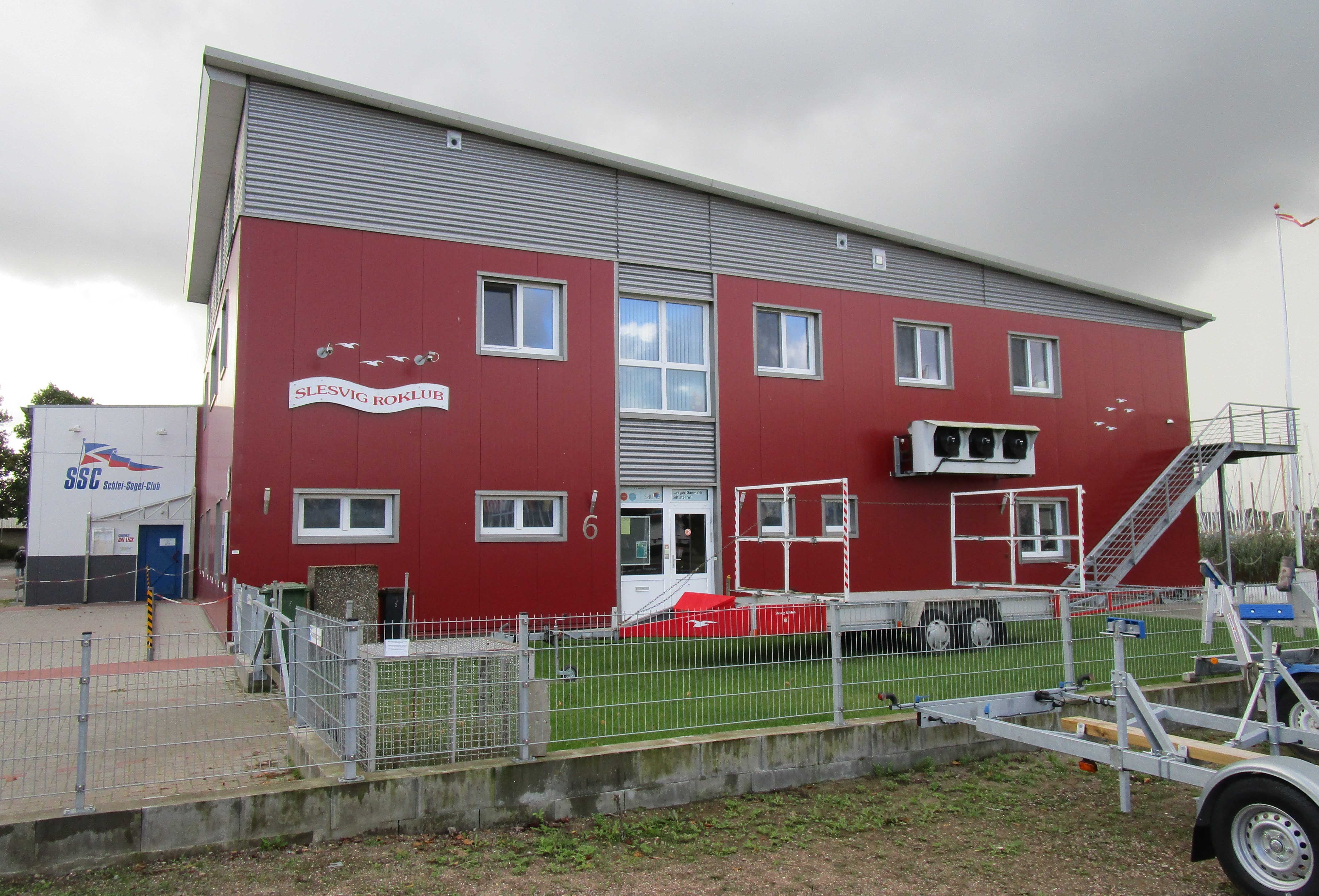 Slesvig Roklub am Luisenbad / Königswiesen (Kongeengen)